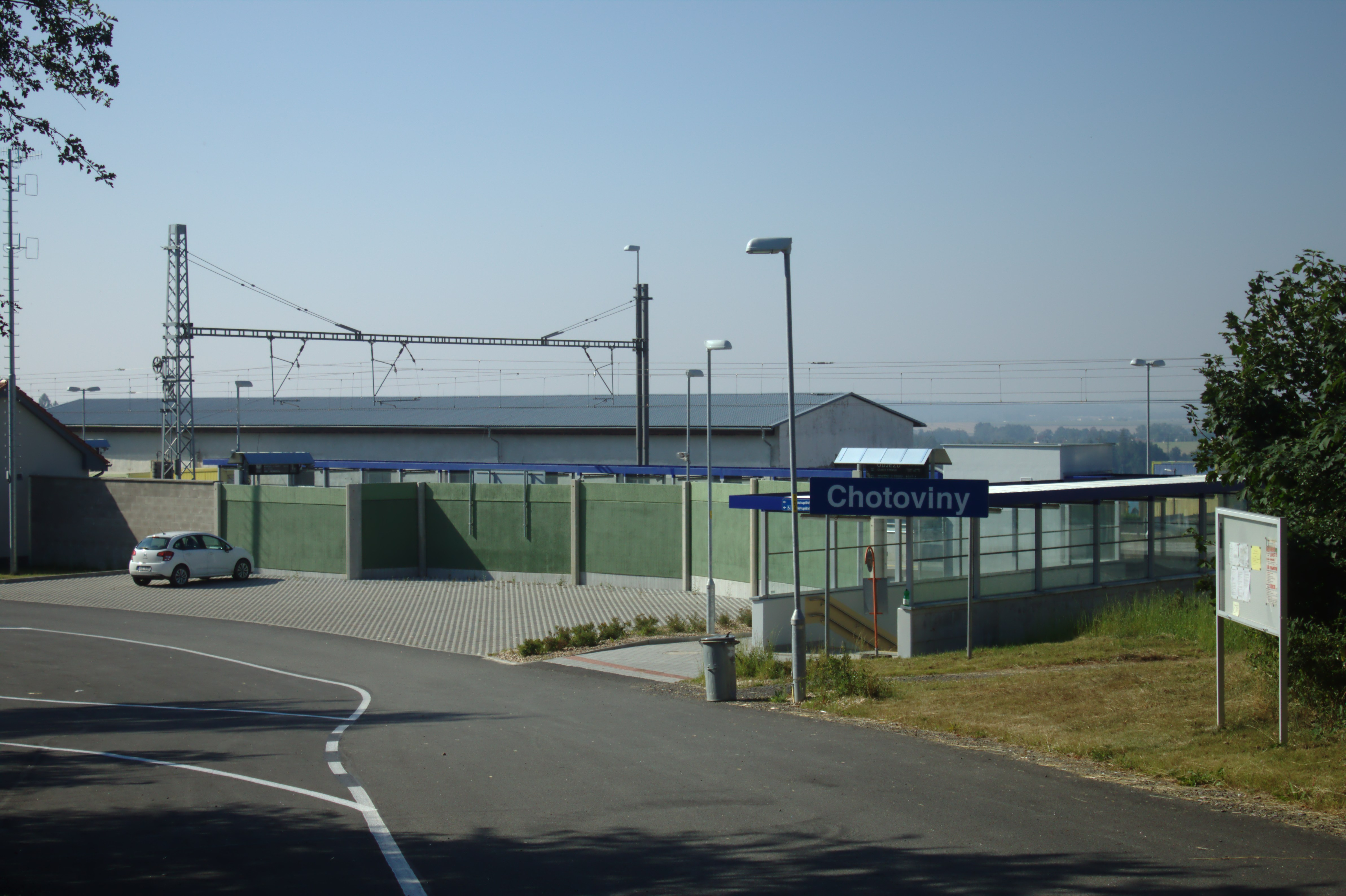 A parking near the train station of Chotoviny, South Bohemian Region, CZ